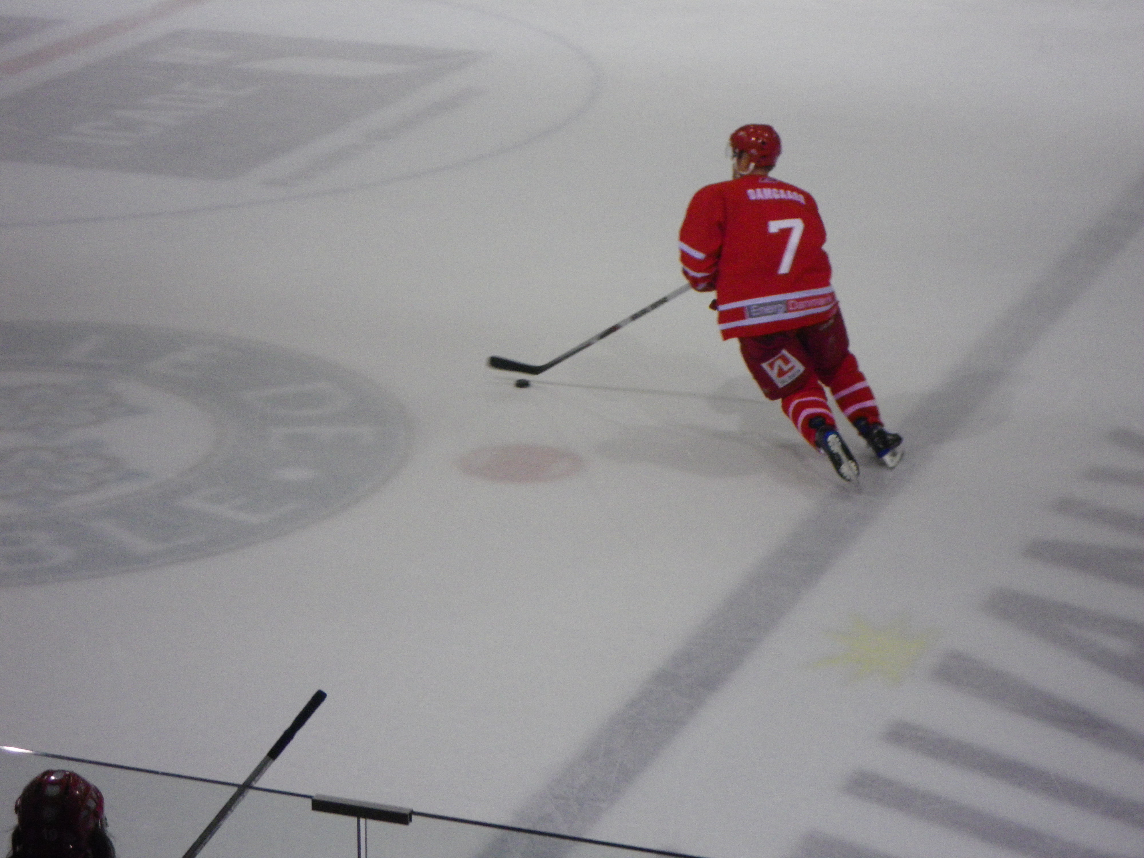 Jesper Damgaard, danish ice hockey player with team Denmark. Friendly against team France.